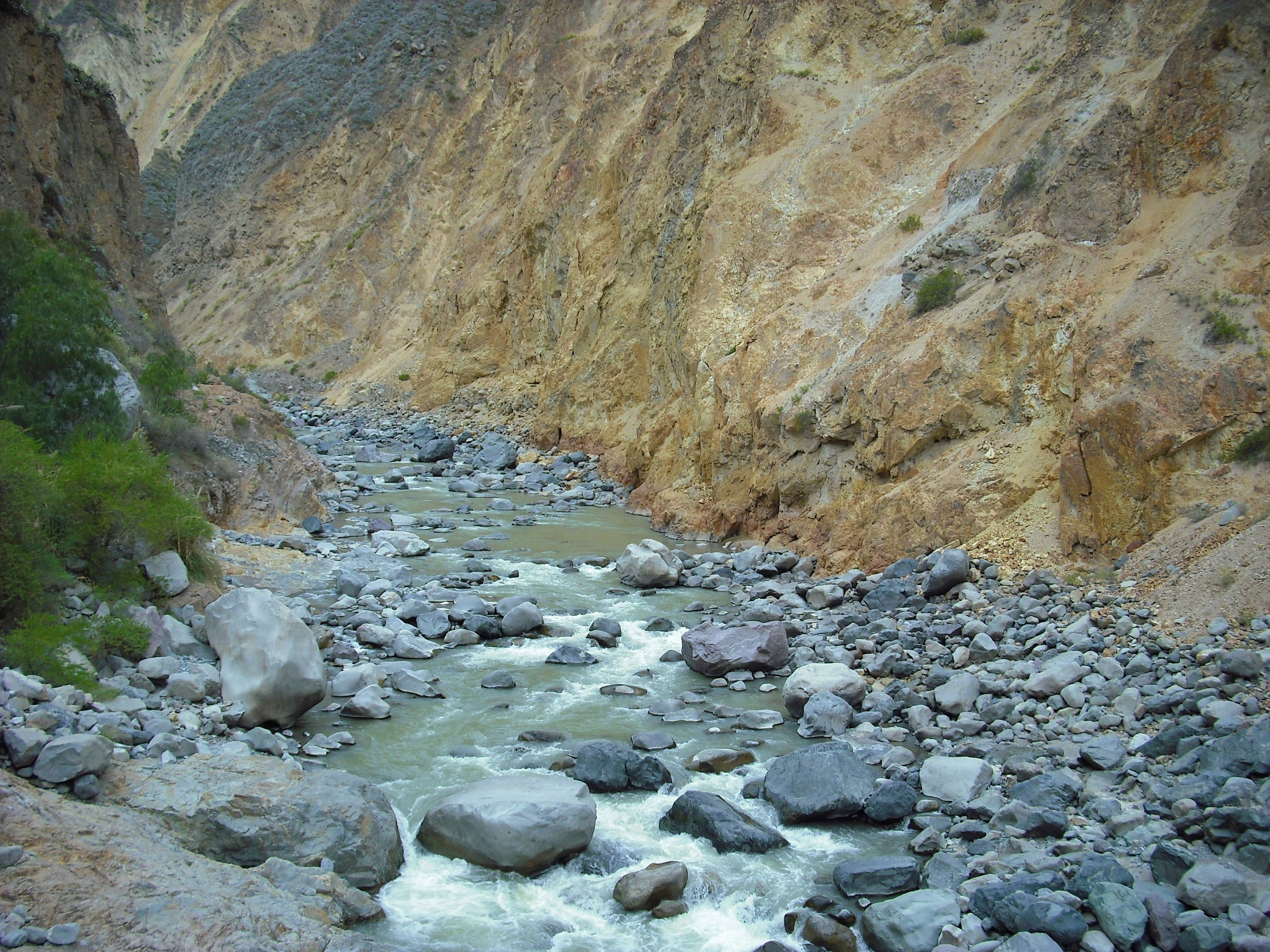 Colca Piver, Colca Canyon, Arequipa, Peru